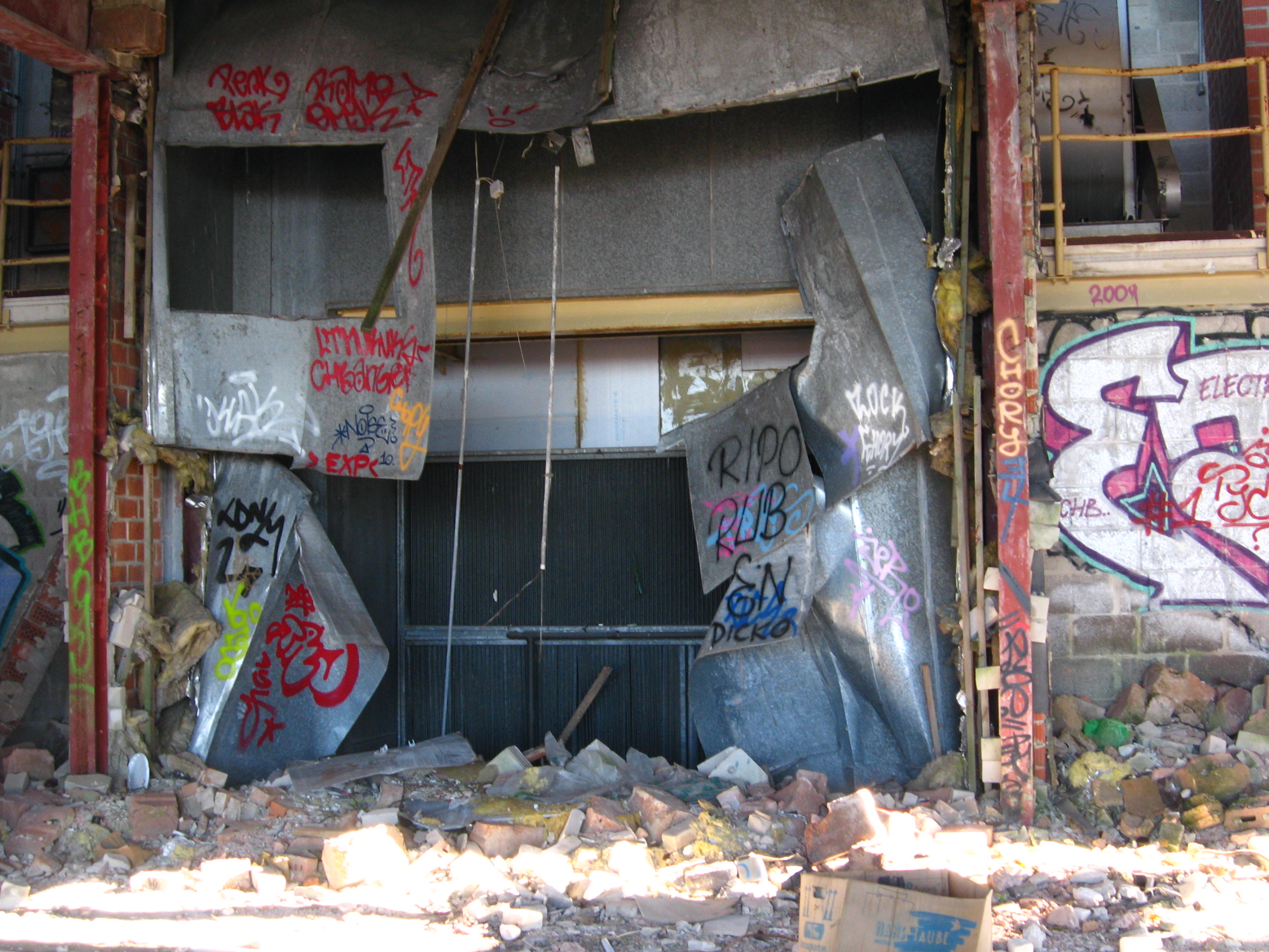 teufelsberg